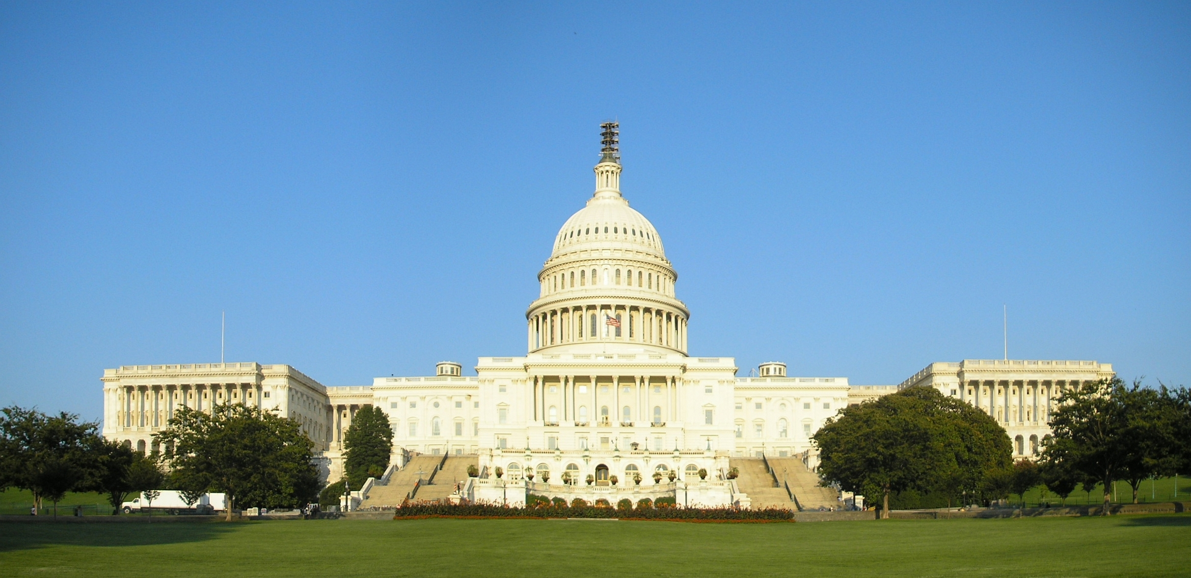 The U.S. Capitol in Washington, D.C..